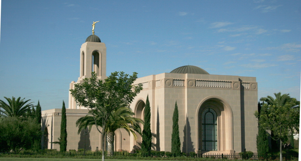 Newport Beach Temple of the Church of Jesus Christ of Latter-day Saints